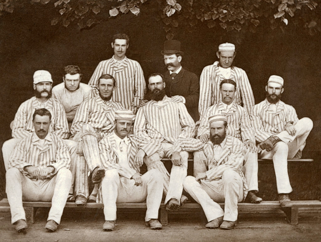 The Australian national cricket team photographed in England, 1878. From left, standing: Fred Spofforth, J. Conway (manager), F.E. Allan; Seated, center: G.H. Bailey, Tom Horan, T.W. Garrett, D. Gregory, A. Bannerman, H. Boyle; Front: C. Bannerman, W. Murdoch, J. Blackham.